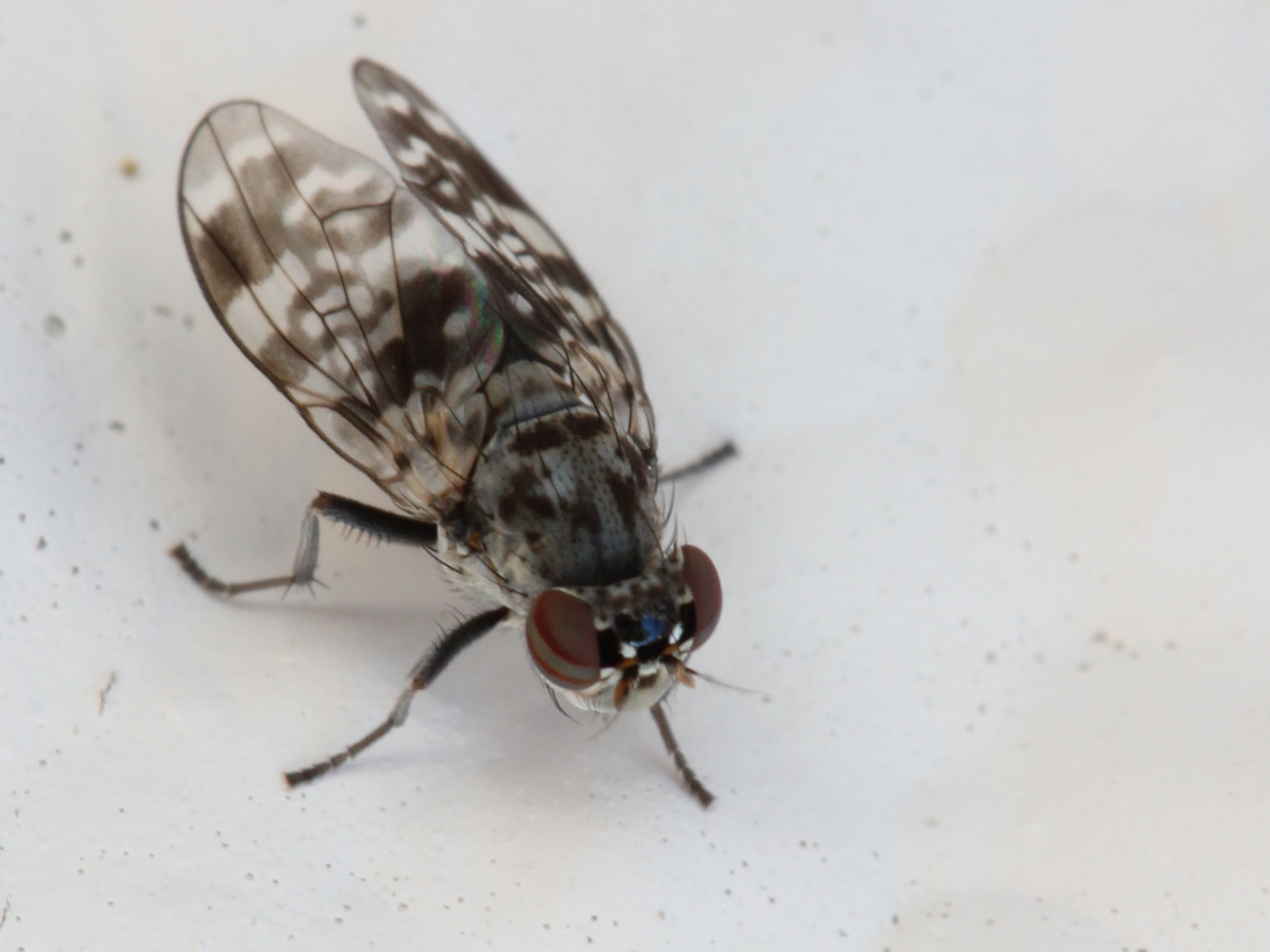 Lauxaniidae Unidentified Cestrotus species. Occurs widely in Southern Africa. Breeds in leaf mould and earth. Sits on rocks & bark. Inconspicuous on lichen. Known locally as "Rock Flies"